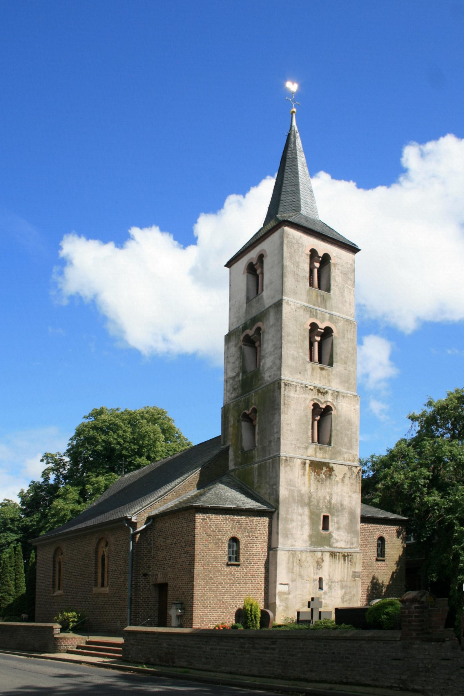 Cultural heritage monument No. 16 in Titz